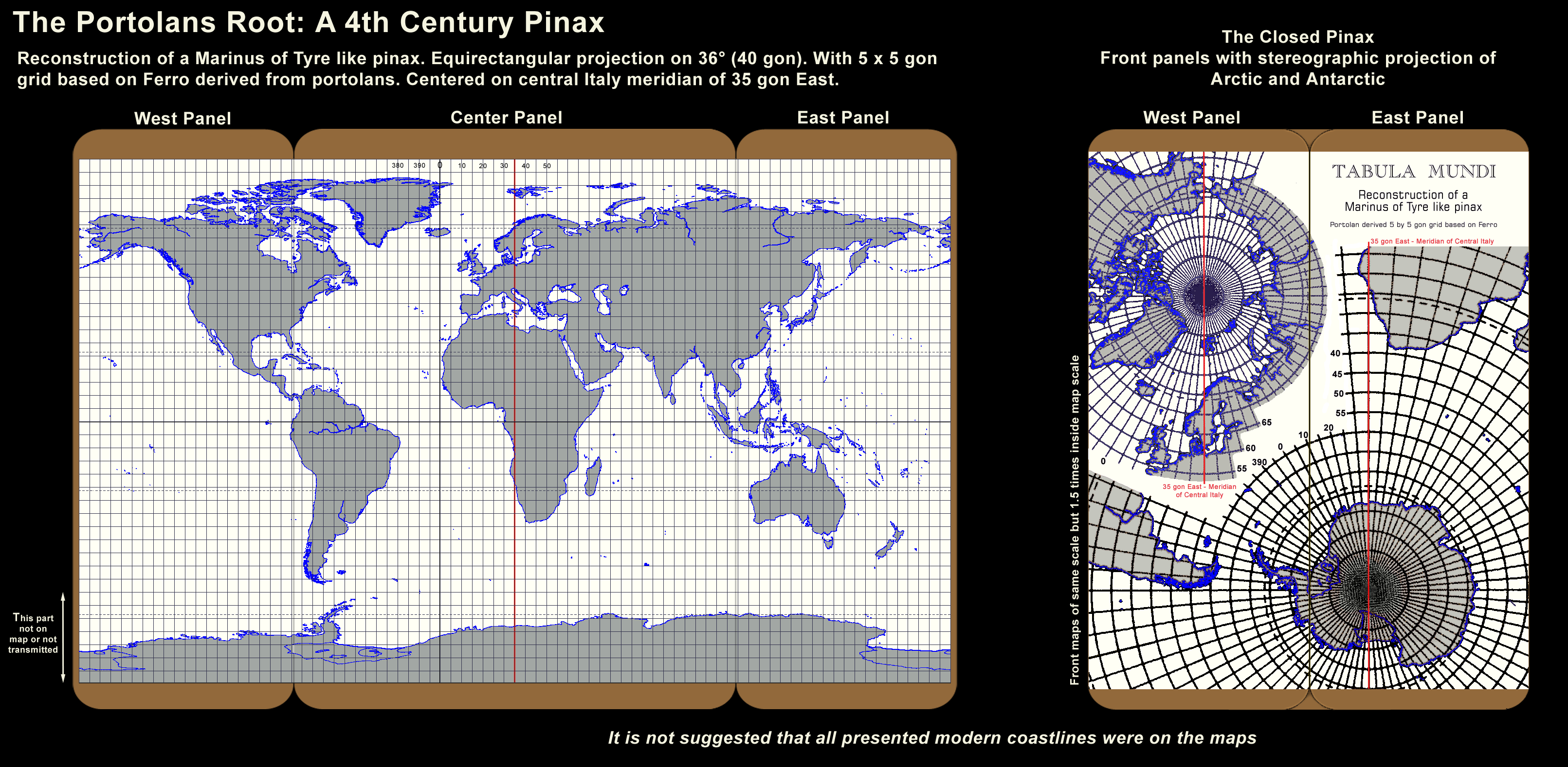 A reconstruction of a Marinus of Tyre like Pinax according Ptolemy and Nordenskioeld. Three wood panel were covered with a parchment map of the world.